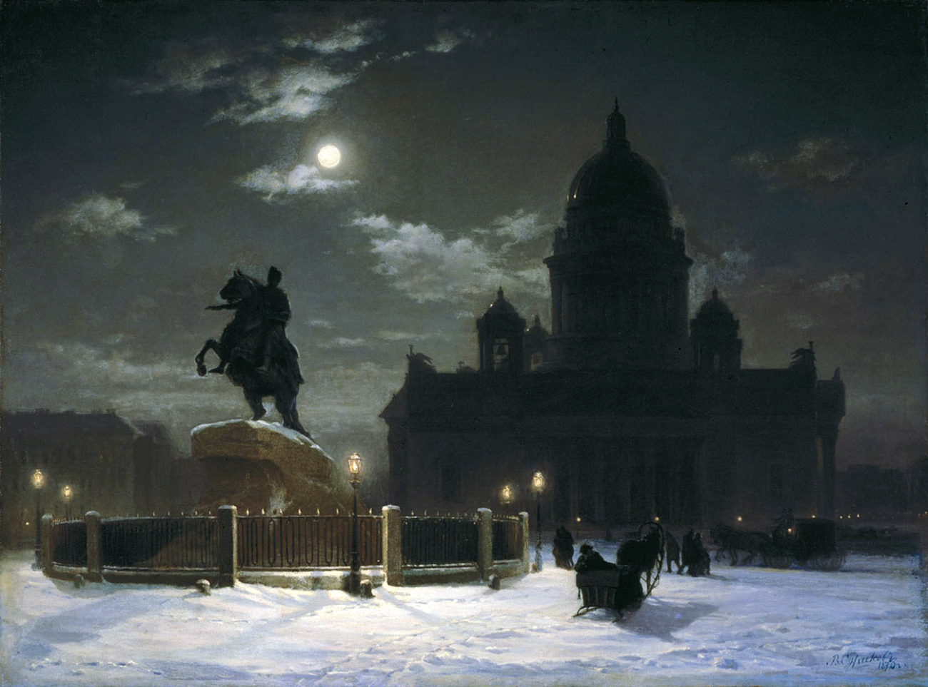 The Bronze Horseman (alternate version)